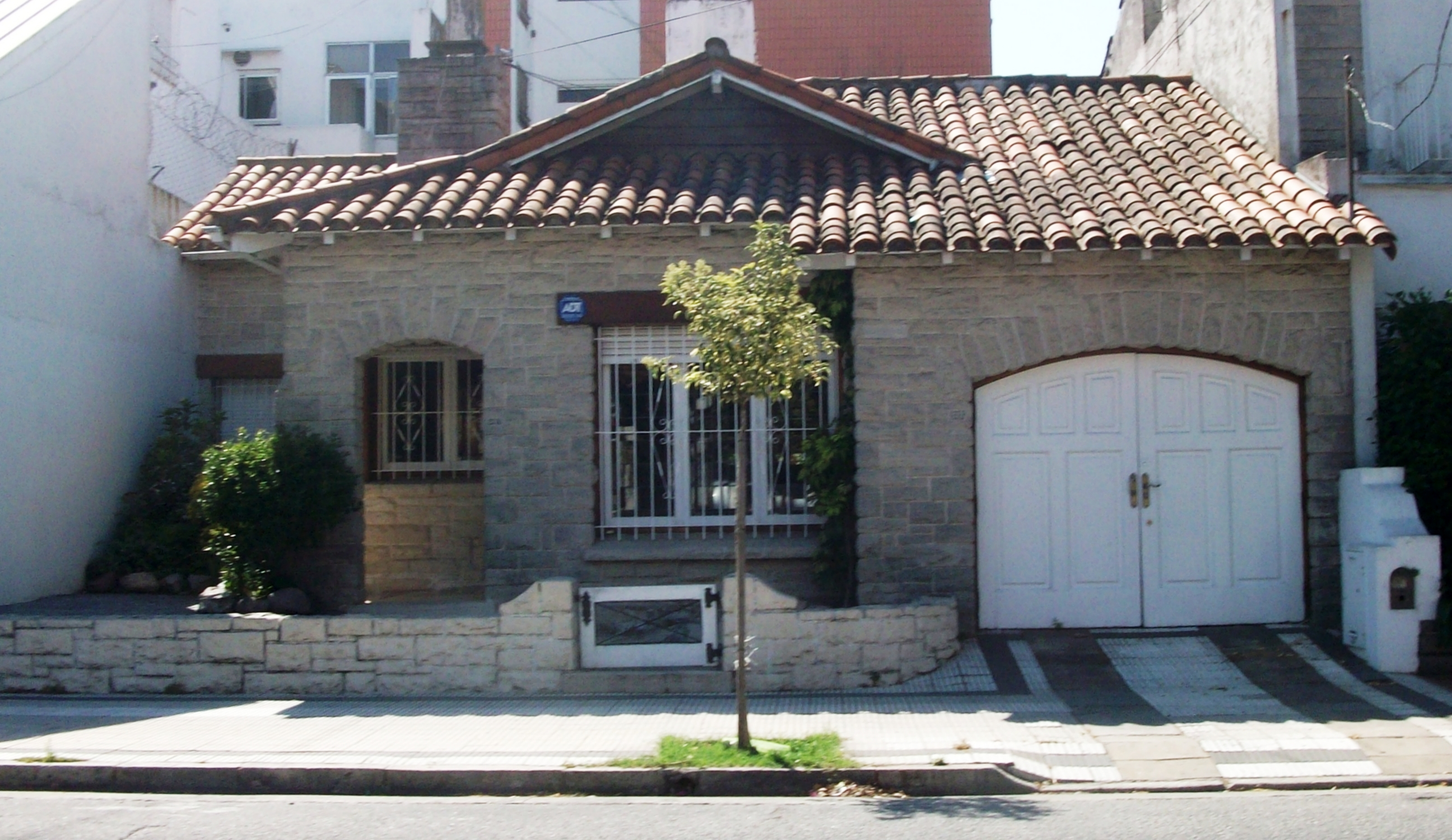 Mar del Plata style house near Plaza Mitre, in downtown Mar del Plata